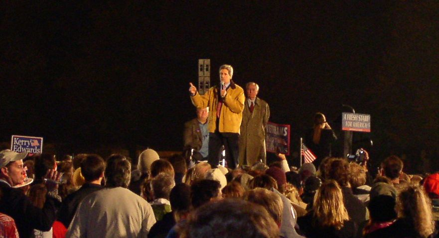 Kerry Rally in Minneapolis, Oct 21, 2004 With Walter Mondale and Max Cleland Taken by Tom Ruen